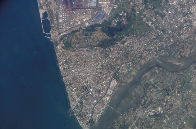 Radar Image of Kaohsiung Taiwan